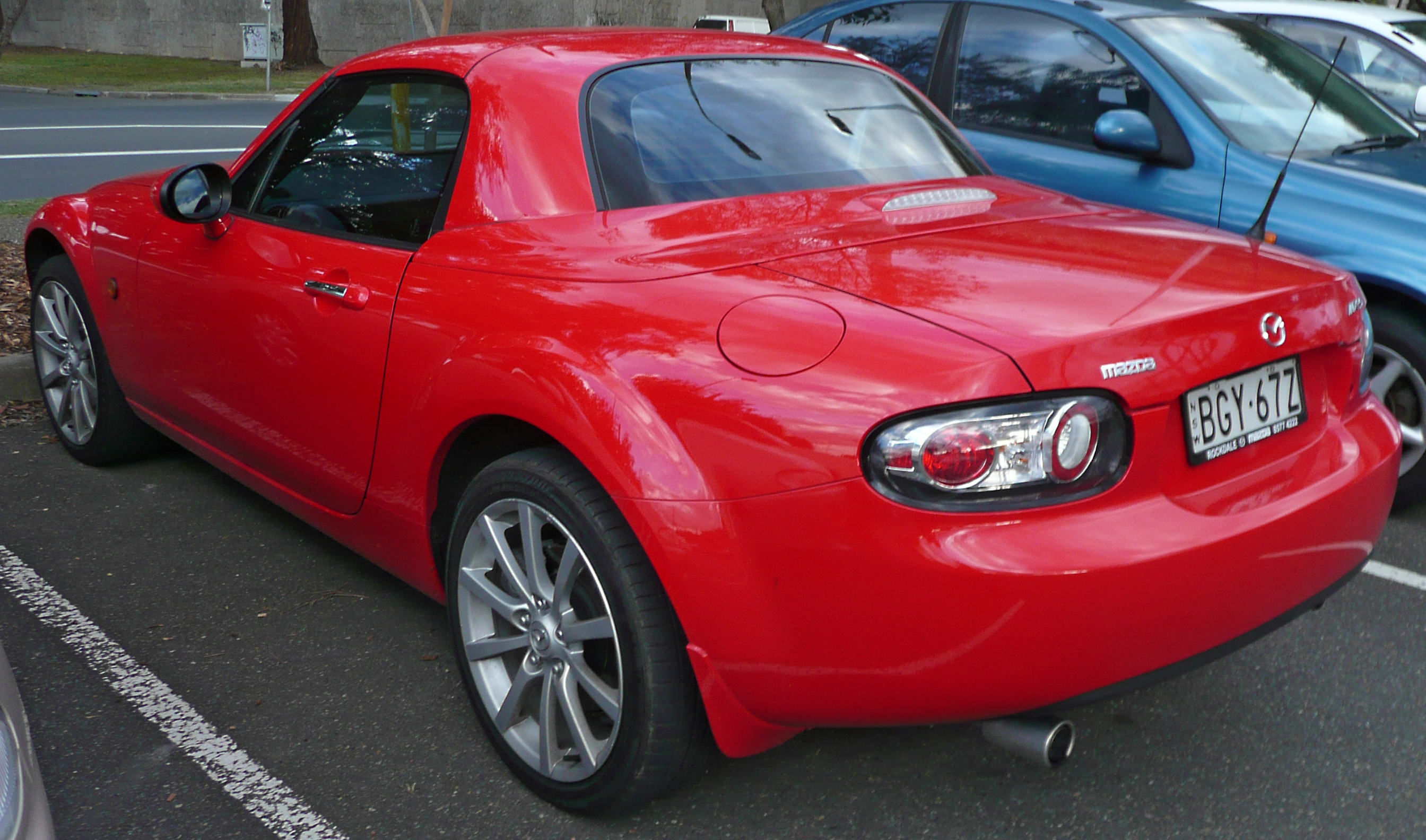 2005–2009 Mazda MX-5 (NC Series 1) hardtop. Photographed in Sutherland, New South Wales, Australia.